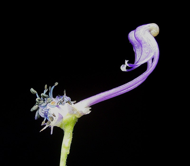 Aconitum napellus dissected flower.